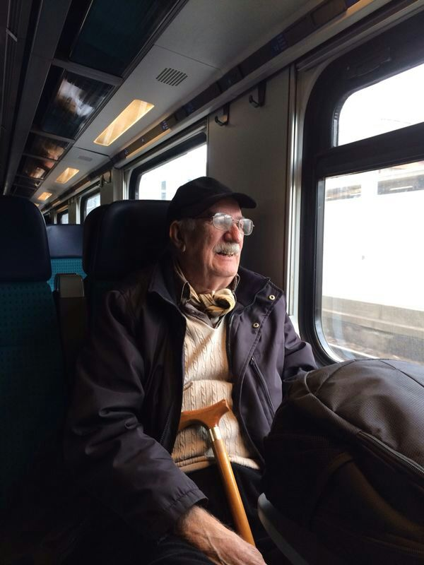 Jorge Francisco Machón